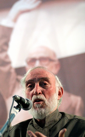 12th Death anniversary of Mehdi Bazargan